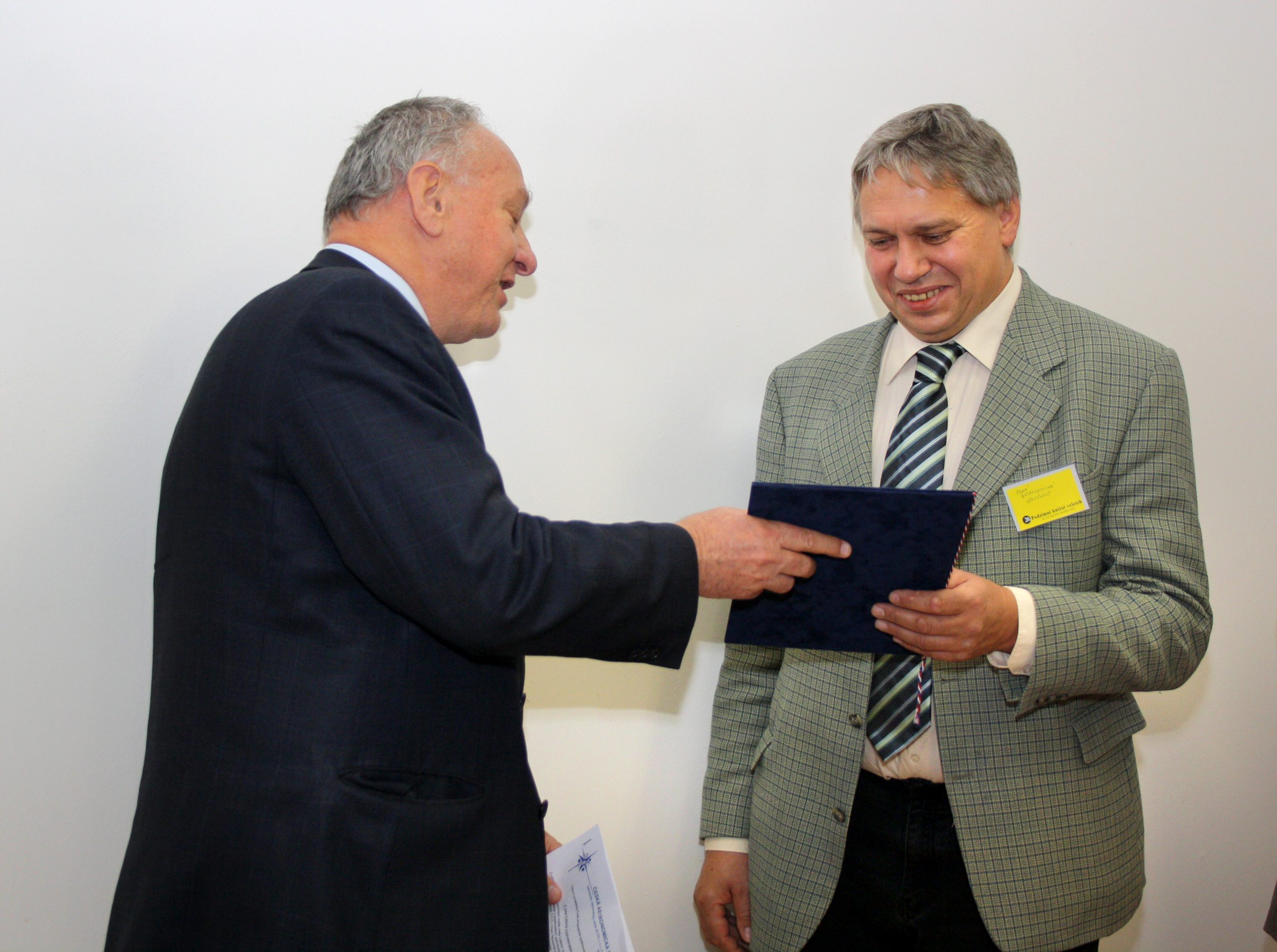 Petr Kulhánek is receiving the Littera Astronomica prize